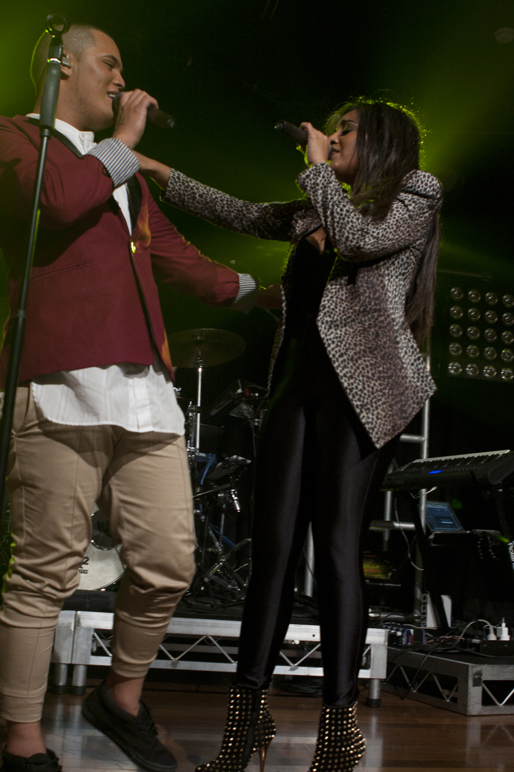 Jessica Mauboy And Stan Walker at the Rock Canberra's showing of the Galaxy Tour